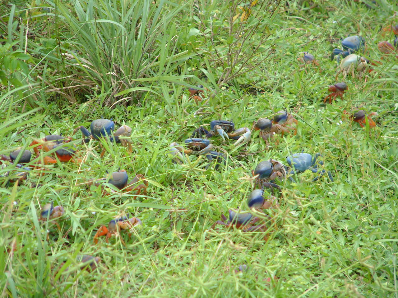 A group of blue land crabs (Cardisoma guanhumi) in Palm Beach county, Florida